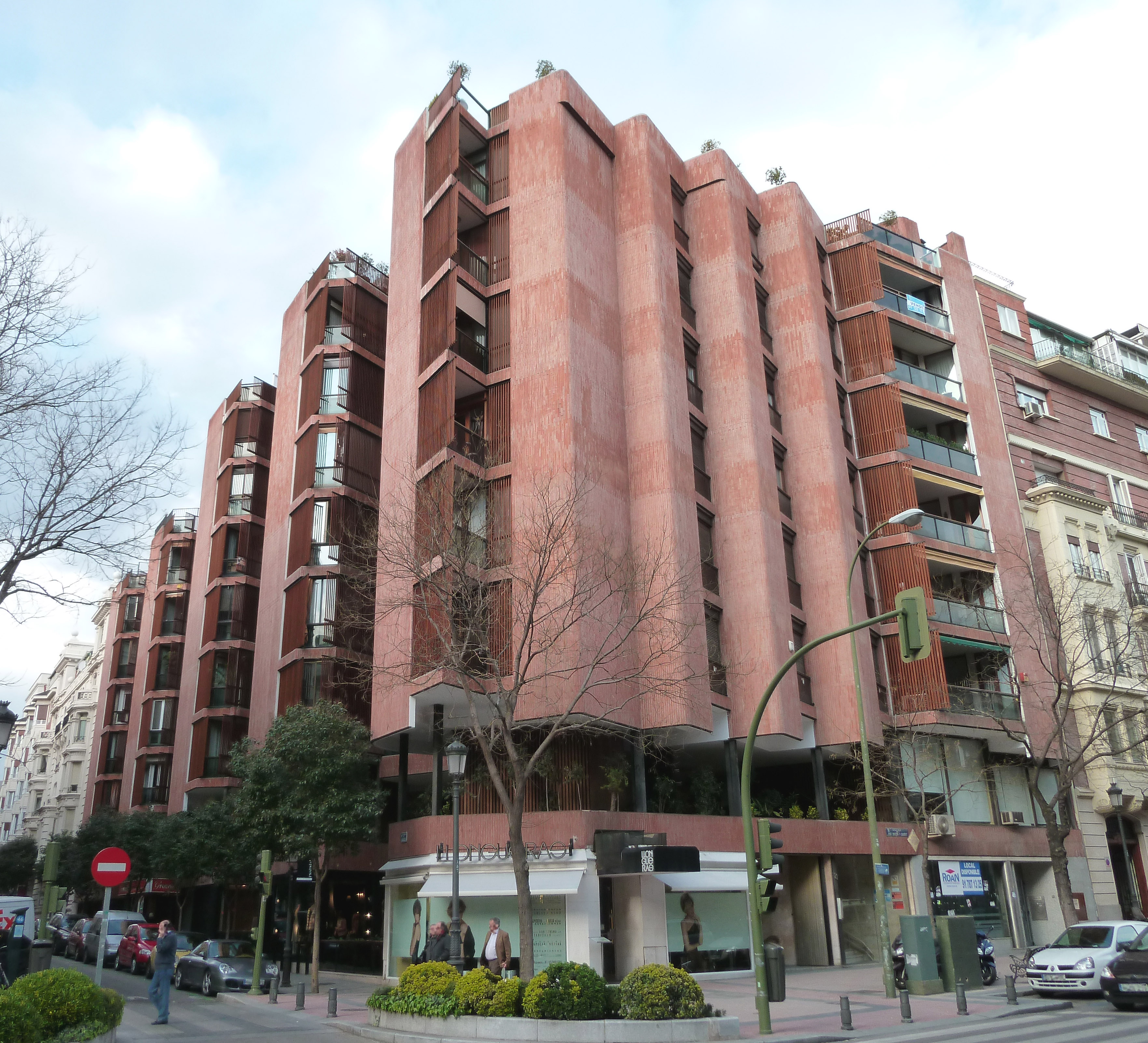 Housing building Girasol (literally "Sunflower") in Madrid (Spain), at 23rd Calle de José Ortega y Gasset (street) in Salamanca District. Building was designed in 1964 by Josep Antoni Coderch and Manuel Valls Verges, and built from 1964 to 1966.